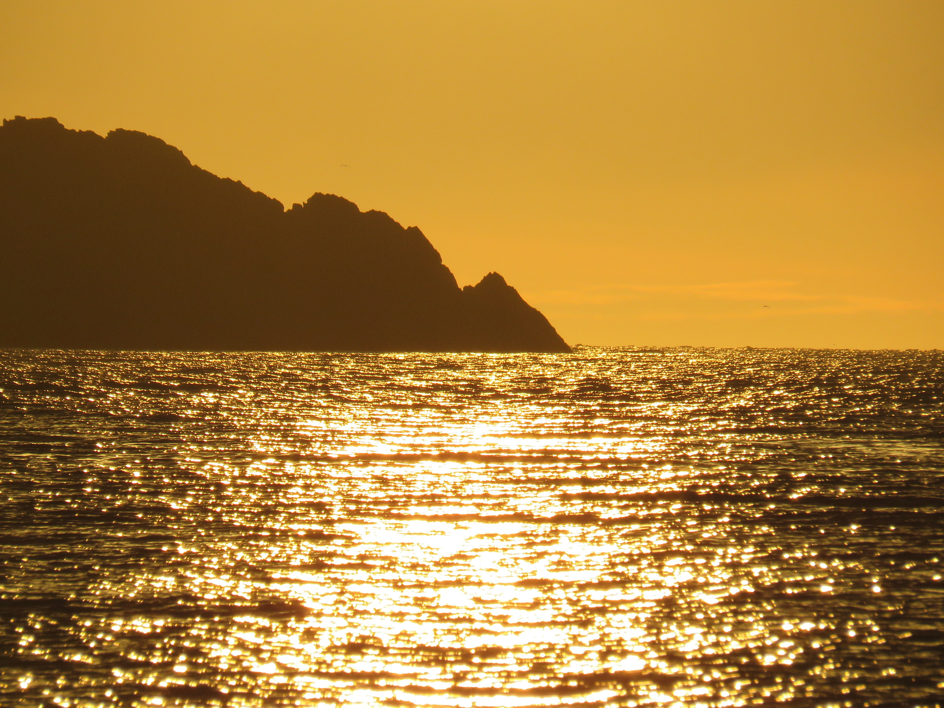 sunset, Cemaes Bay, Anglesey, Wales